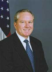 Otto Reich, Assistant Secretary of State for Western Hemisphere Affairs in the Bush Administration